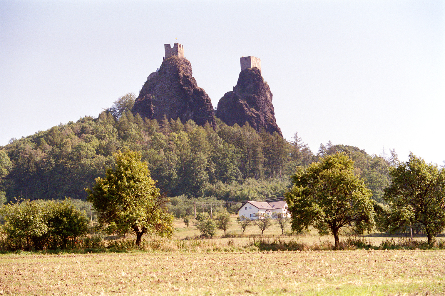 Castle Trosky in the Czech Republic/ Burg Trosky